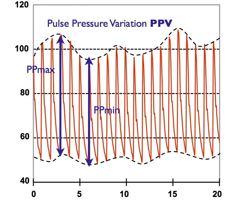 Pulse pressure variation or respiratory swing